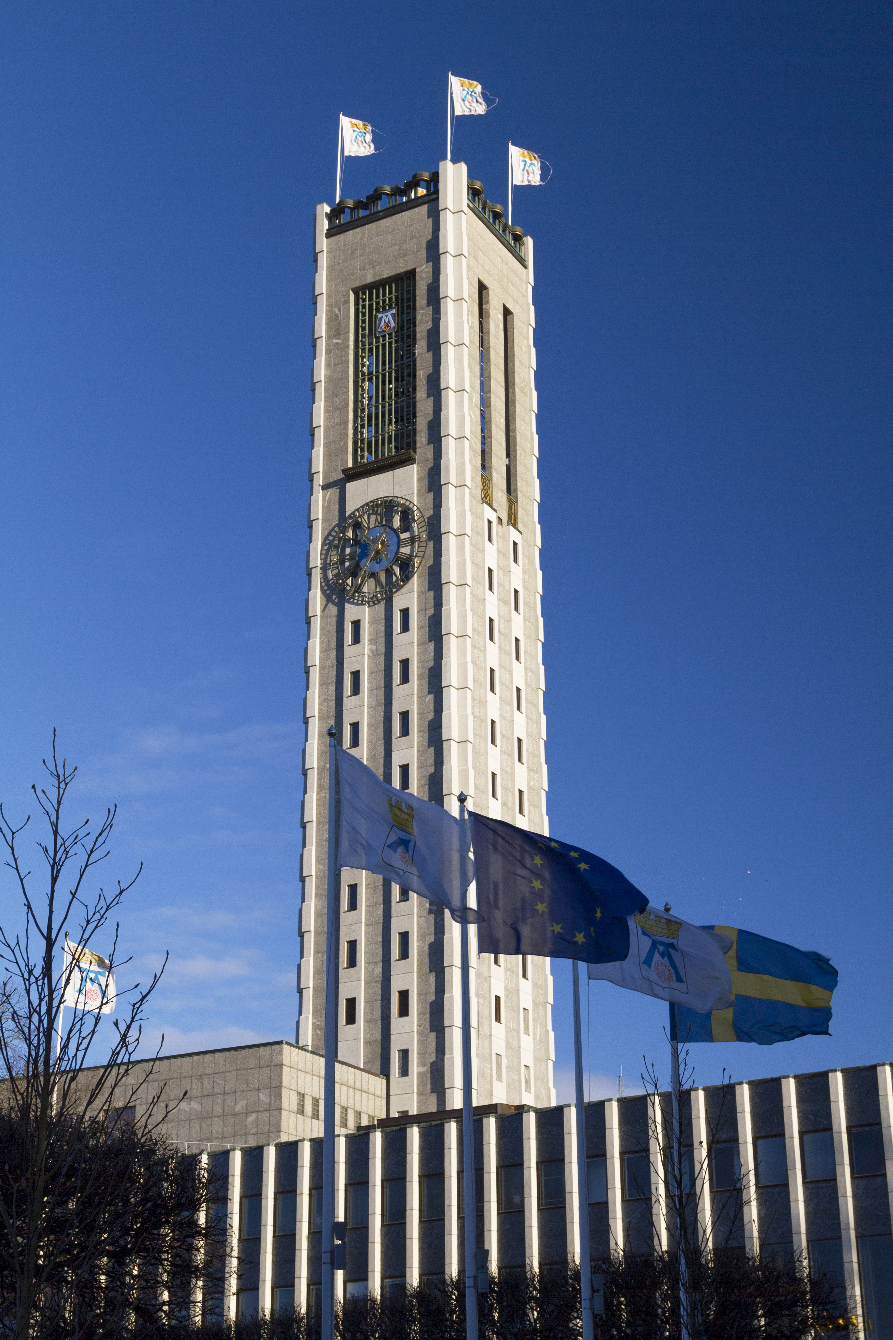 Västerås Town hall tower